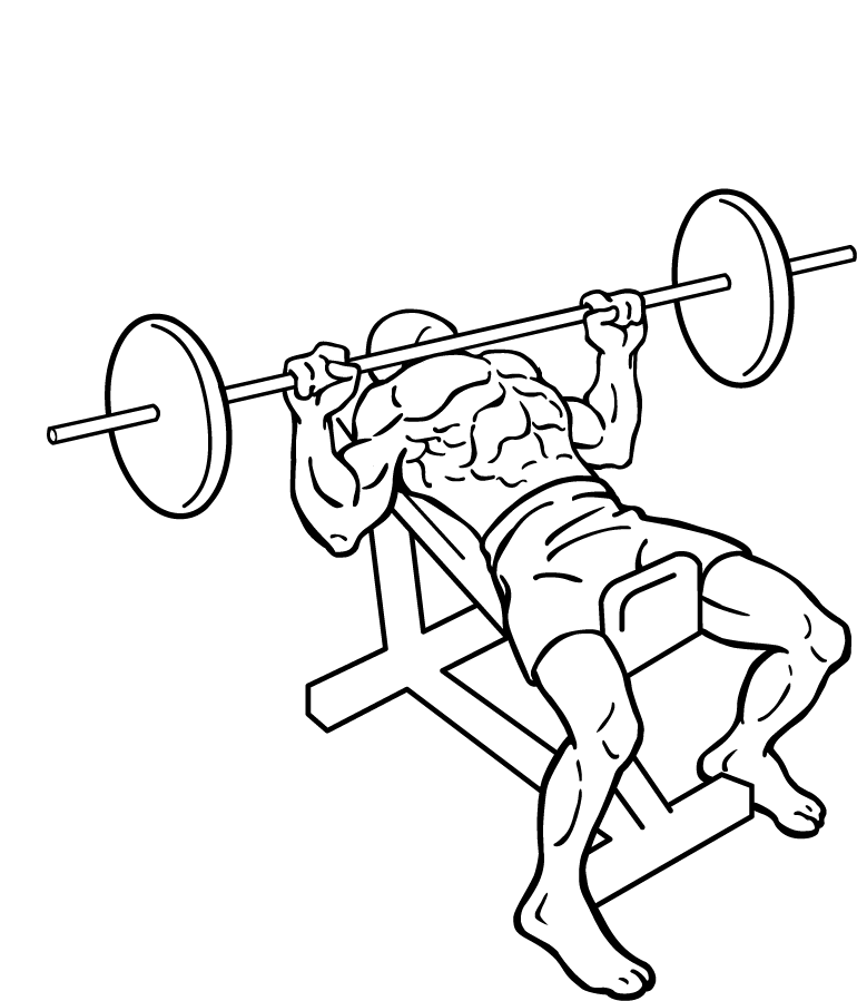 an exercise of chest